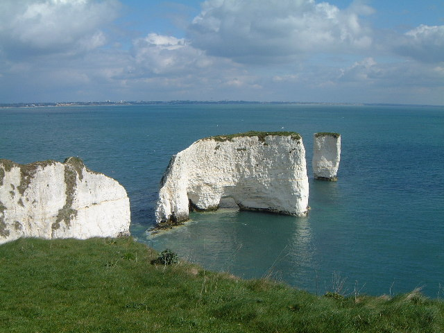 Old Harry Rocks, a fantastic part of the Jurassic Coast, near Swanage, Dorset, England